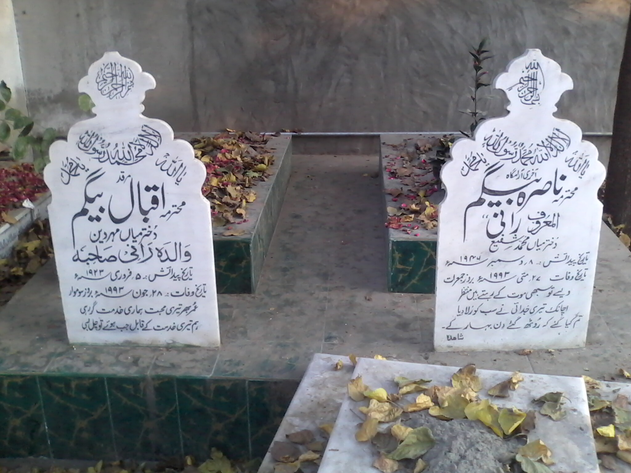 These are tombstones of Rani and her mother